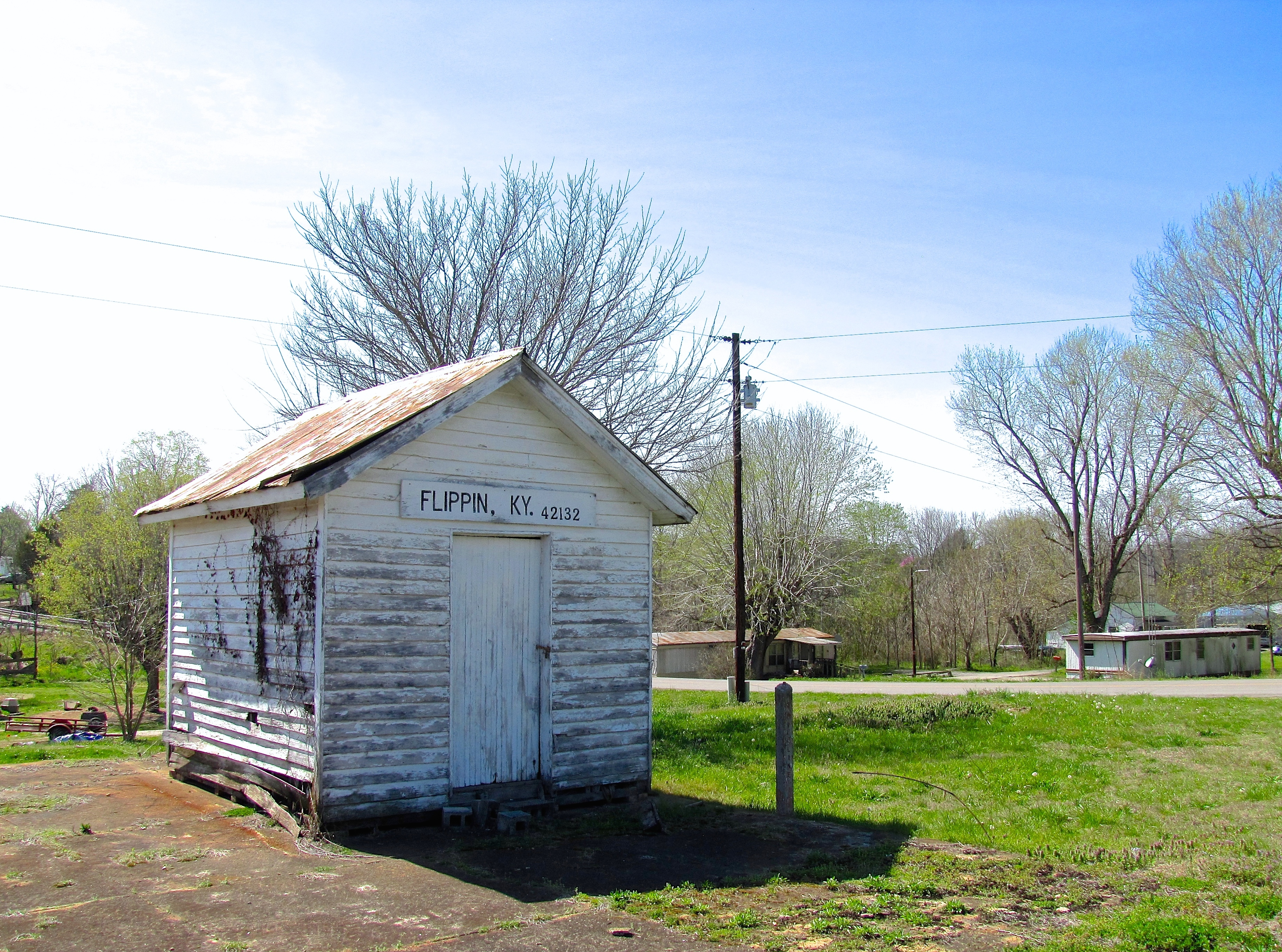 Flippin, Kentucky, United States. 42132: A zip code that took early retirement. This building was not the actual post office, just a reminder of Flippin’s past.